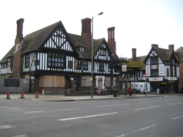 Edgware: The Railway public house This has to be one of the finest examples in the land of that 1930s phenomenon, the Mock Tudor pub. This one even has a separate lodge, on the right, connected to the main building by a covered archway that goes over the entrance to the stables, (aka the car park). There are classic chimneys and, beneath the first floor windows, heraldic crests. Alas the building is boarded up and closed. In fact this is just another footnote in the saga of the demise of the former Great Northern Railway (GNR)'s branch line to Edgware. The line opened in 1867 and was the first railway to be built to Edgware from London. The terminus station occupied the site immediately to the left of this building, now the Broadwalk Shopping Centre. The first Railway hotel followed shortly afterwards in 1870, but that was demolished in 1930 to be replaced by the current Mock Tudor pub on the site in 1932. But the underground station at Edgware was opened in 1924, with its terminus immediately to the north-east of the GNR one, and, faced with the competition on a more direct route to London, the former GNR line, by this time run by the London & North Eastern Railway, closed to passengers in 1939, and the station was subsequently demolished. So The Railway is a reminder of Edgware's original station, not the current one.